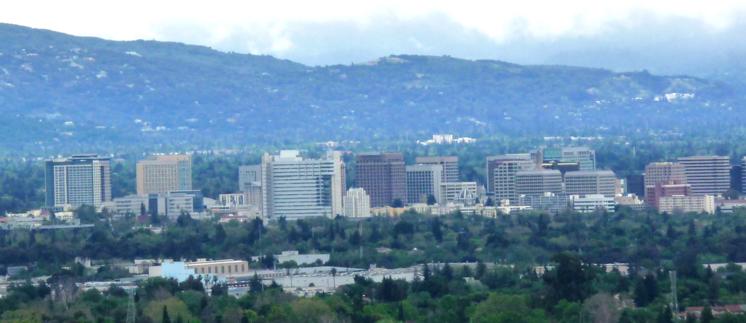 This is my own image.